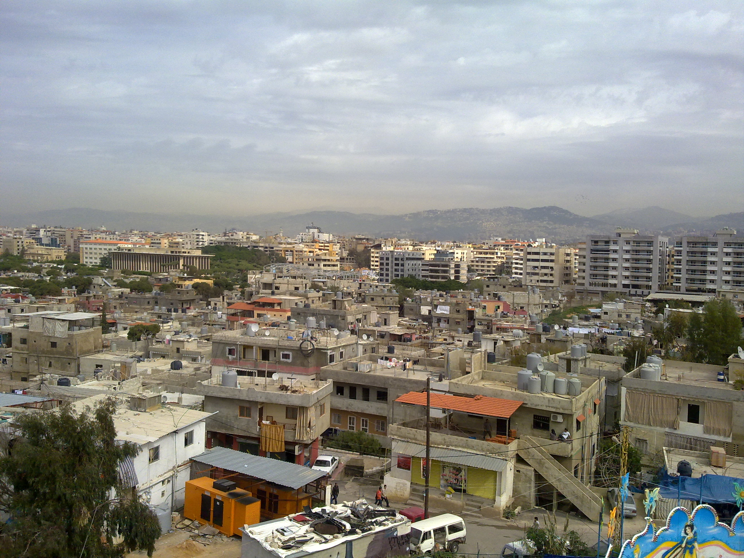 from fantasy world